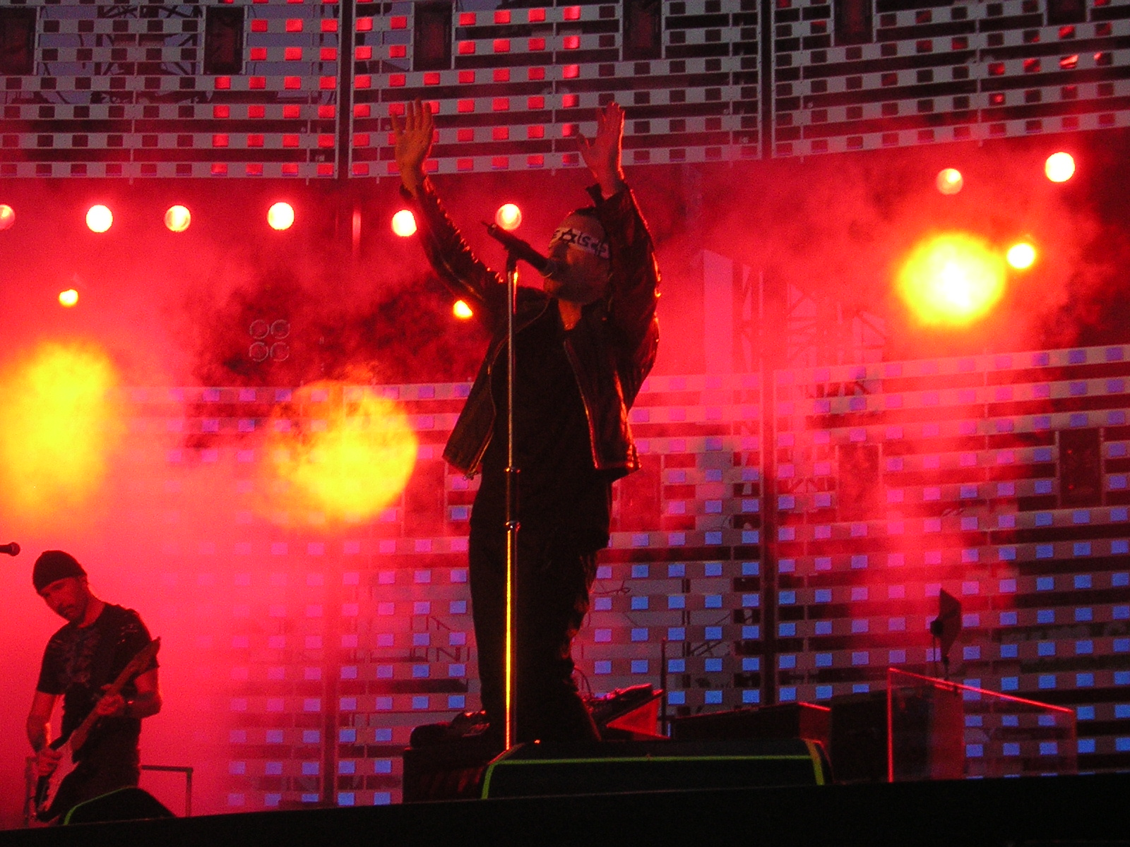 U2 performing "Bullet the Blue Sky" during the Vertigo Tour in 2005